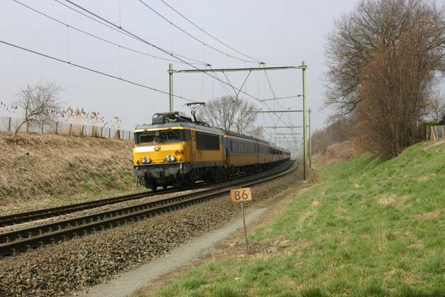 Iron Rhine, the railway part between Roermond and Weert